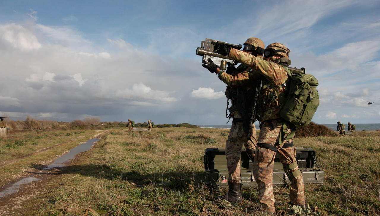 Italian Army - 17th Anti-aircraft Artillery Regiment "Sforzesca" FIM-92 Stinger team during an exercise 2016